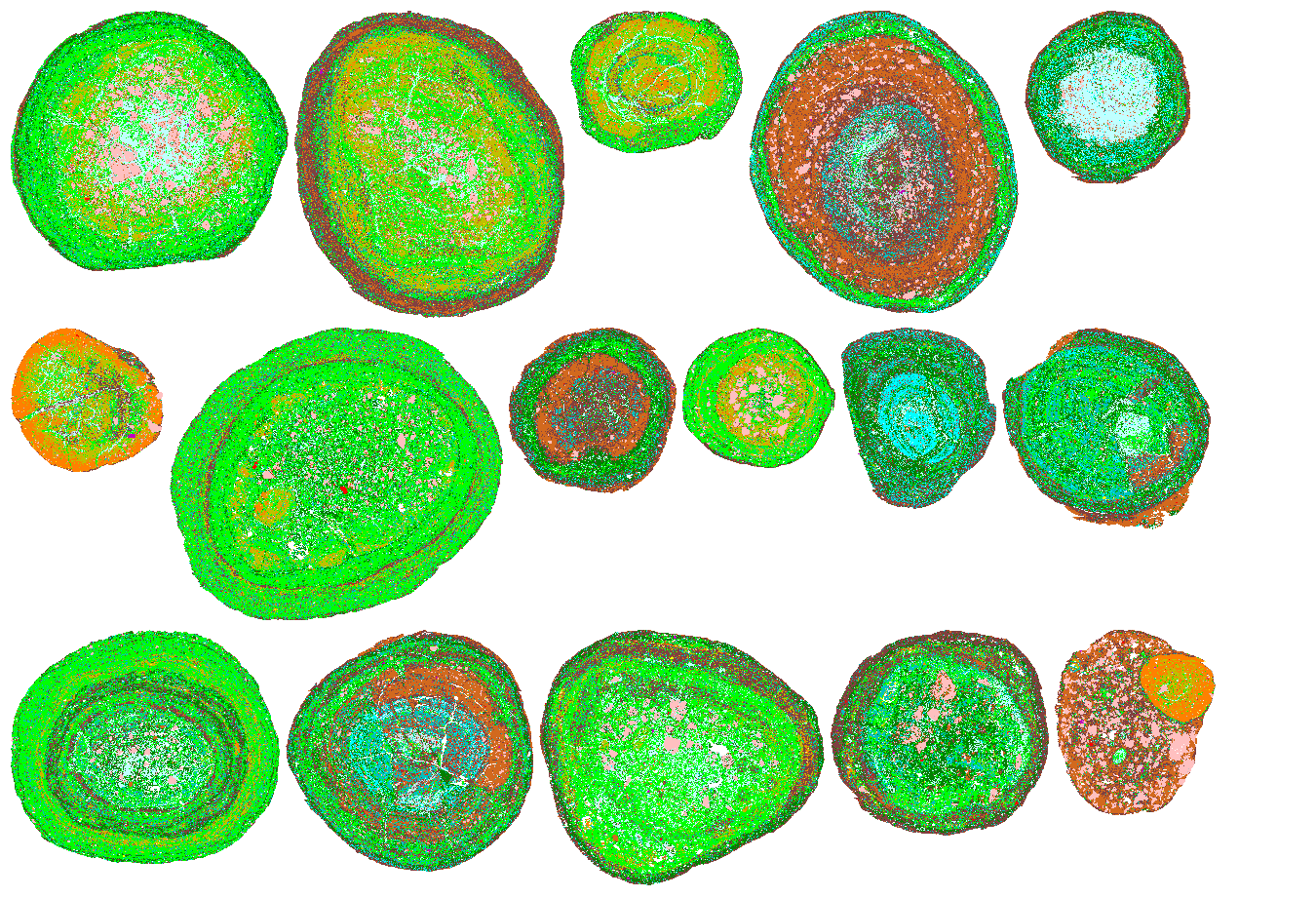 QEMSCAN cross-sectional image of pisoliths provided by courtesy of Intellection Pty. The QEMSCAN mineral map is emphasising that no two pisoliths are the same – although they generally have a nucleus and core which is then surrounded by several concentric layers. Pisoliths can form a bauxite ore, the main source of aluminium. Extraction of aluminium from the ore involves a complex chemical digestion technique known as the Bayer Process. The efficiency of this process is significantly reduced if impurities other than aluminium hydroxide (green) are present in the ore, such as quartz (pink), clays (brown) and iron oxides (orange) in the image.